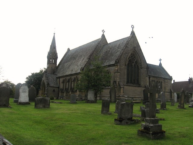 Church of St. John the Evangelist at Otterburn